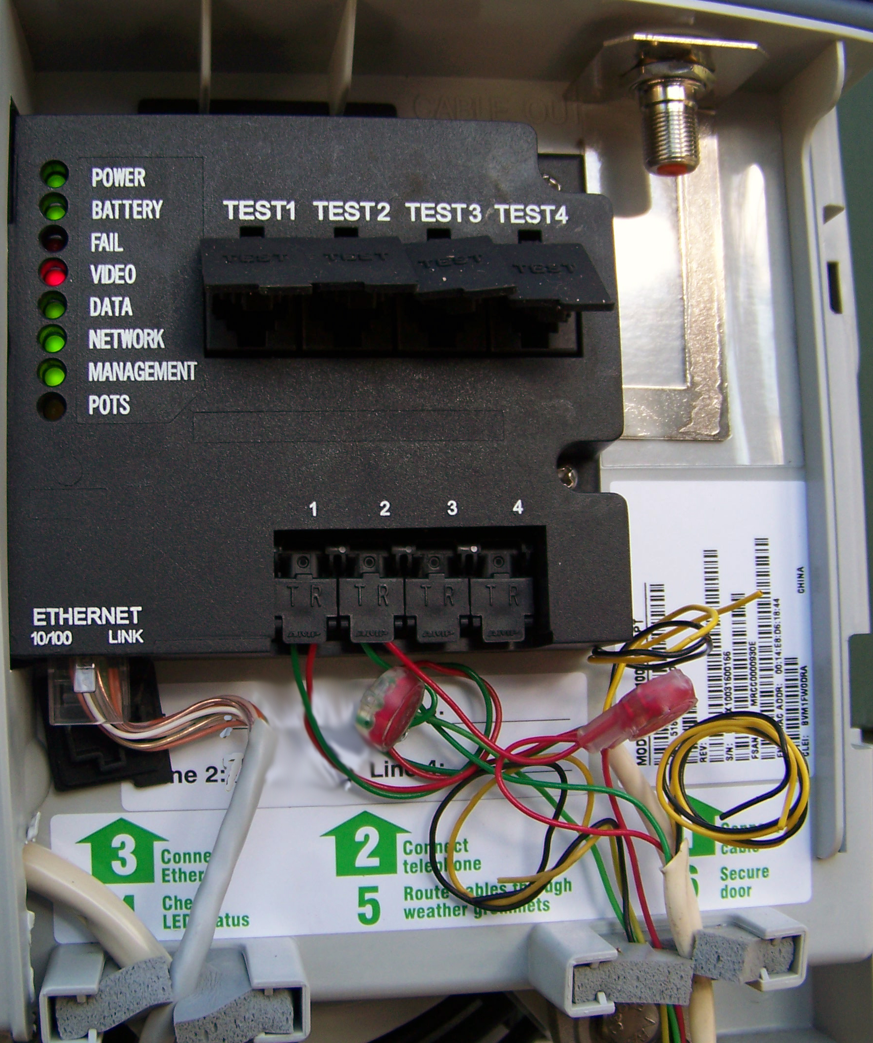 FiOS installed in Montclair, New Jersey